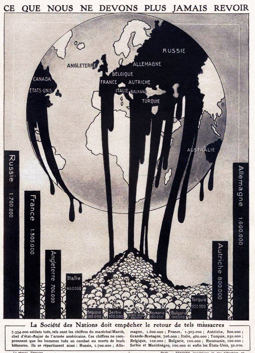 "What we should never see again", "The League of Nations shall prevent the recurrence of such massacres." Hopes for peace in March 1919, during the discussions of the Treaty of Versailles to give birth to the League of Nations. (Note: the numbers of deaths per country are those given in 1919 and have since been redesigned). Drawing published in the French weekly Le Miroir March 16, 1919.